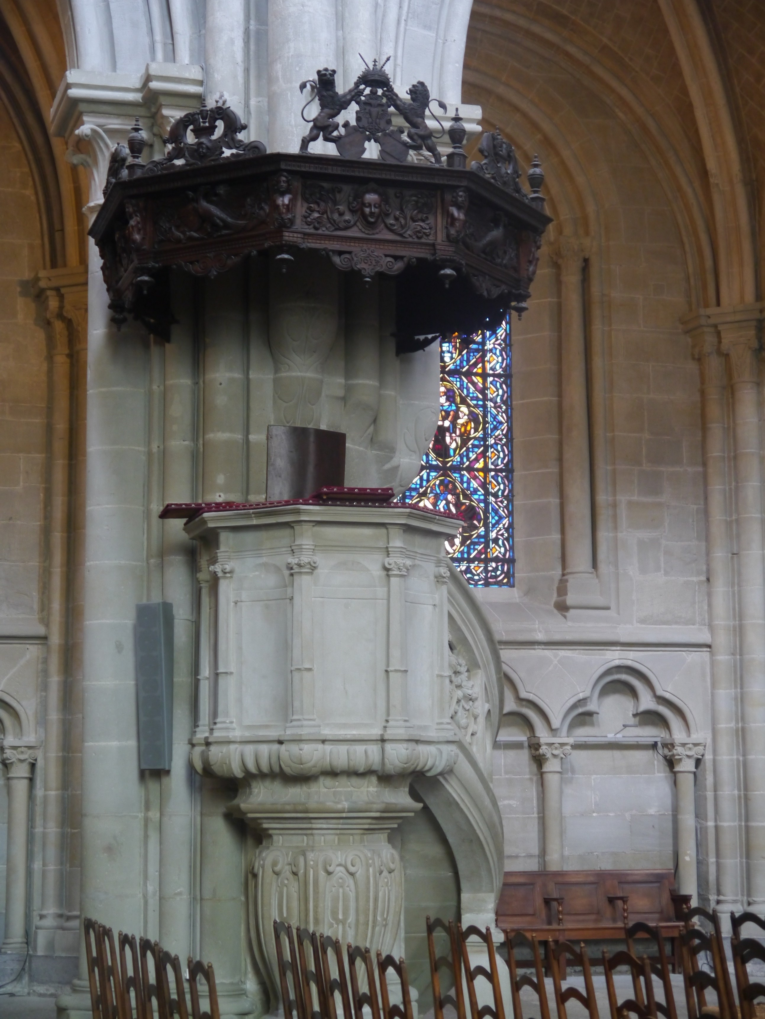 Pulpit of the Cathedral of Our Lady of Glarier, Lausanne, Canton of Vaud, Southwestern Switzerland